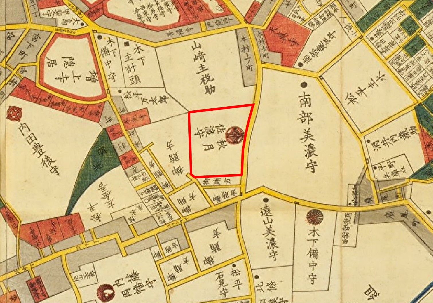 Residence of Akizuki clan at Edo